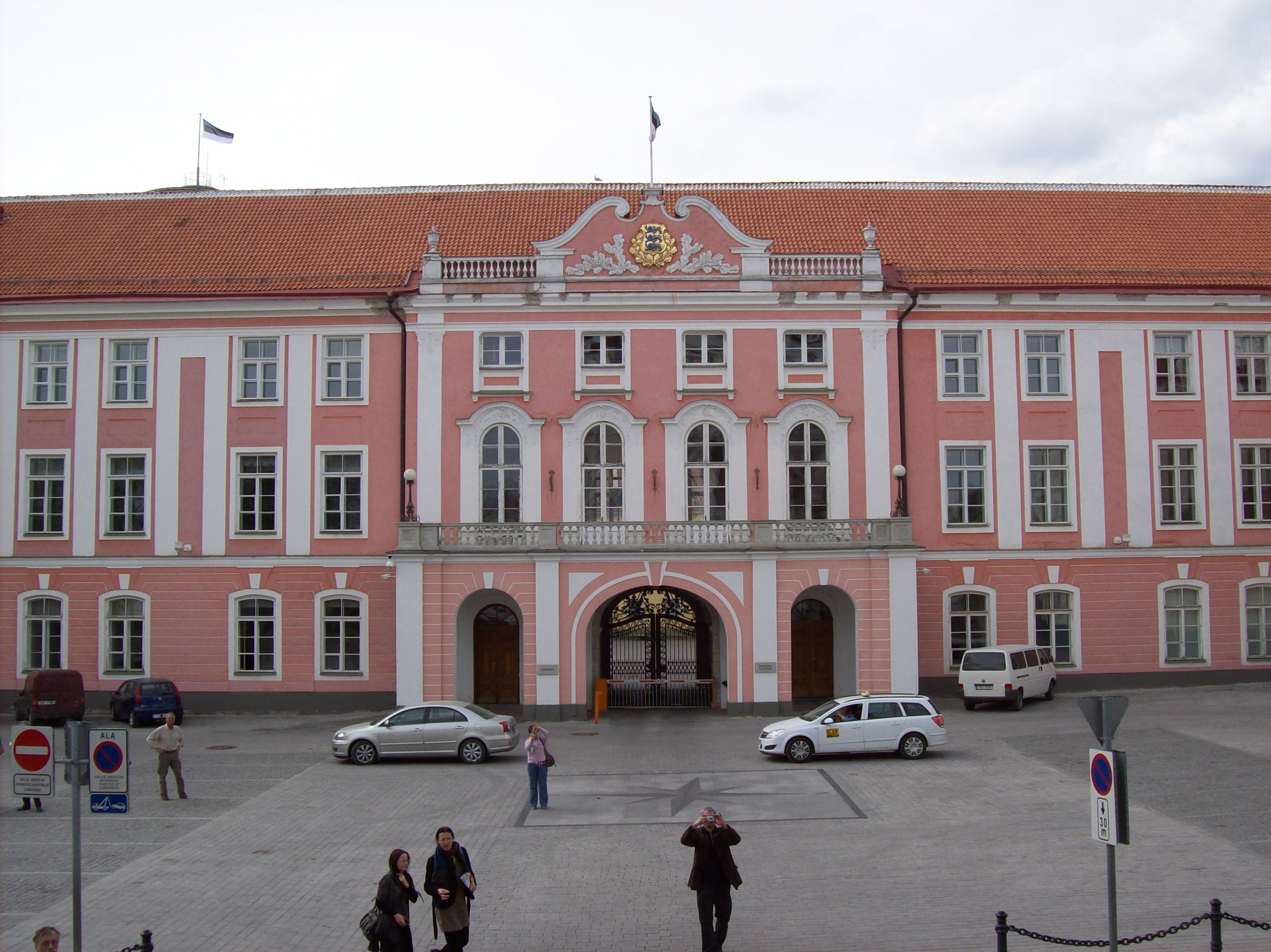 Estonian Parliament in Tallinn